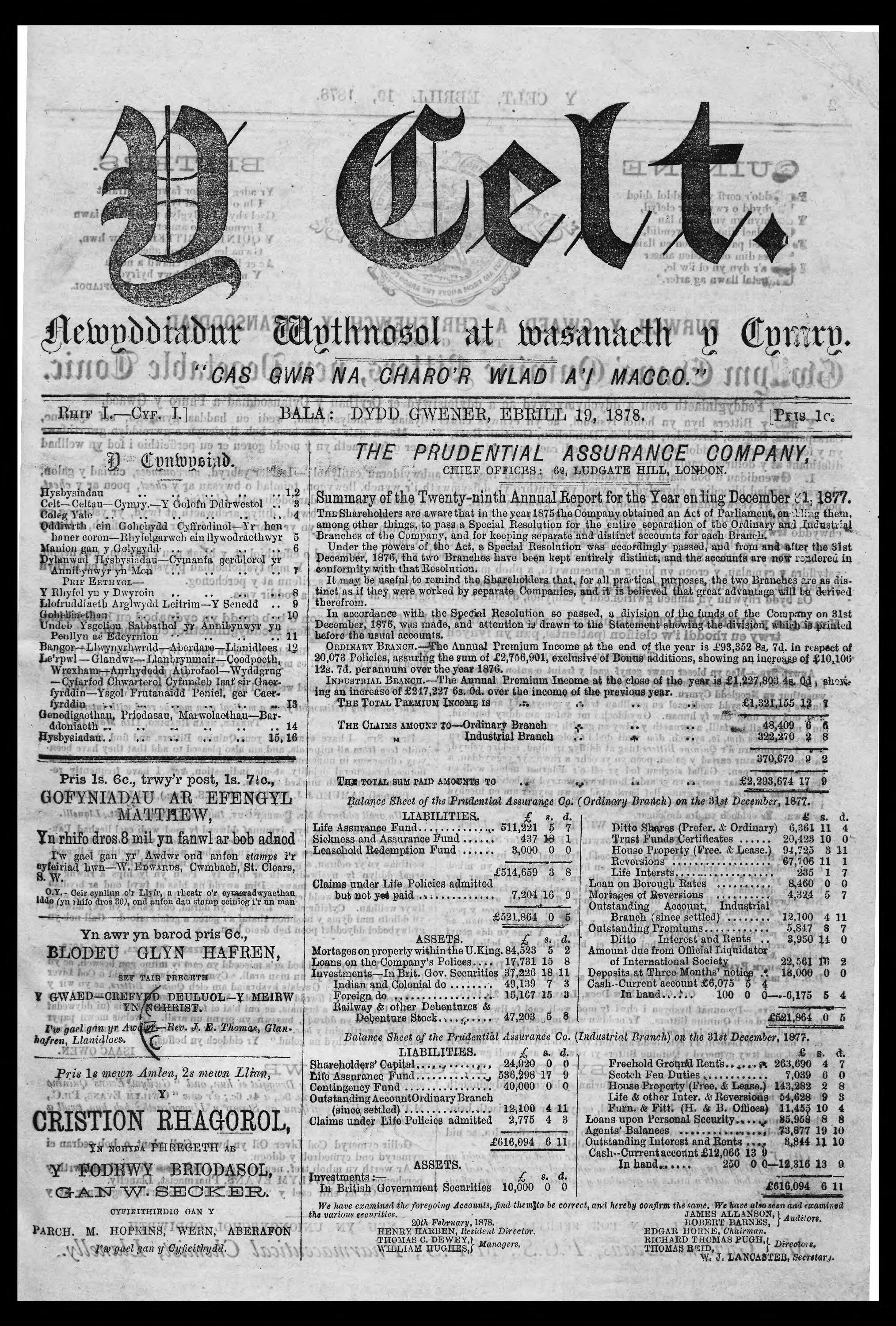 Front page of the earliest surviving copy of the Welsh newspaper Y CeltCymraeg: Tudalen flaen y copi cynharaf sydd yn bodoli o'r papur newydd Cymraeg Y Celt